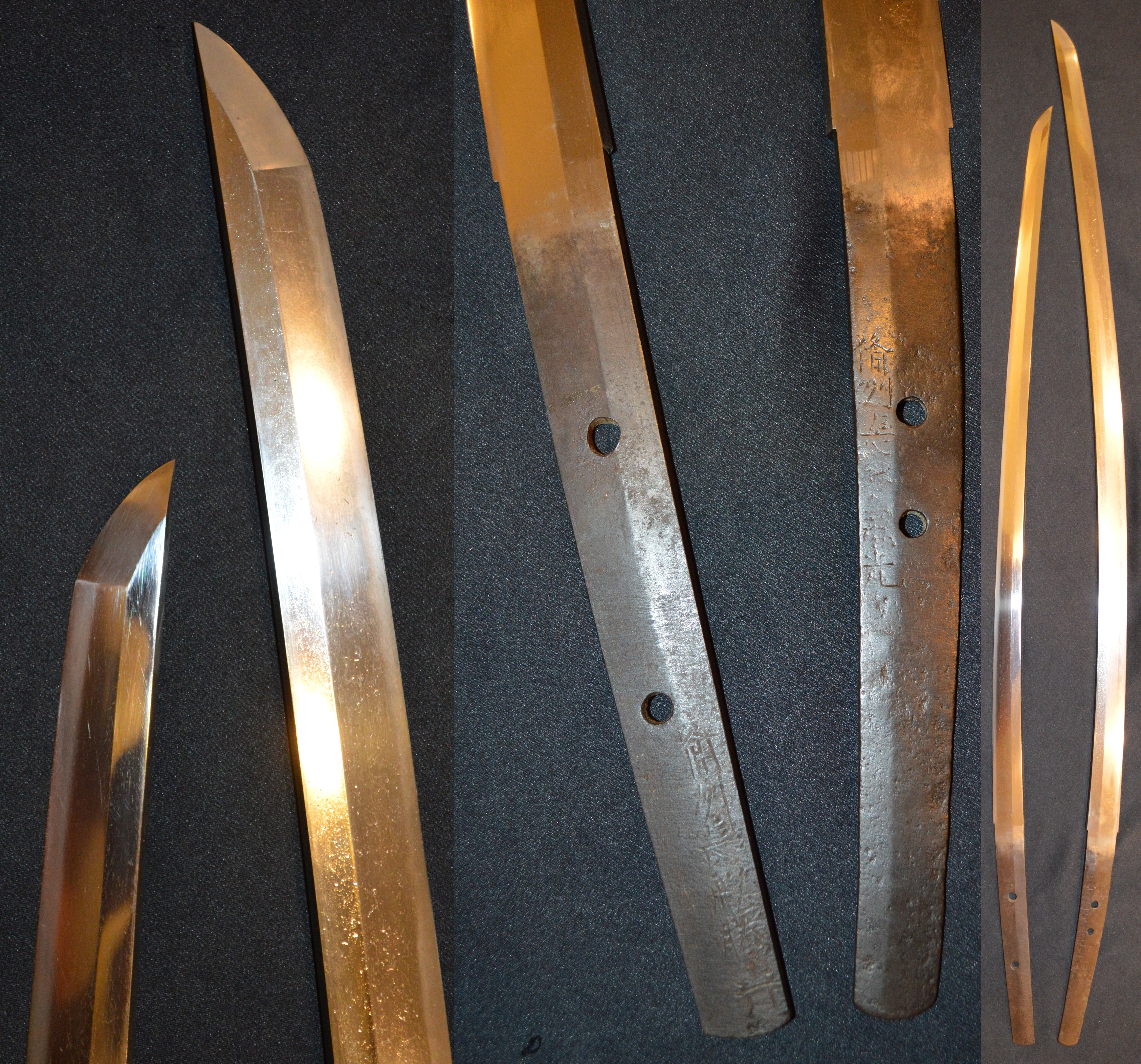 Tachi / katana comparison. Lt:Katana, katana mei (bishu osafune katsumitsu), possibly Koto, middle of the Muromachi period 1500's, 24 5/8 in cutting edge. Rt:Koto Bizen tachi, tachi-mei , 71 cm / 27.95in nagasa, very early Muromachi Period (650 yrs old). Possibly Lesuke or Kozori Bizen.